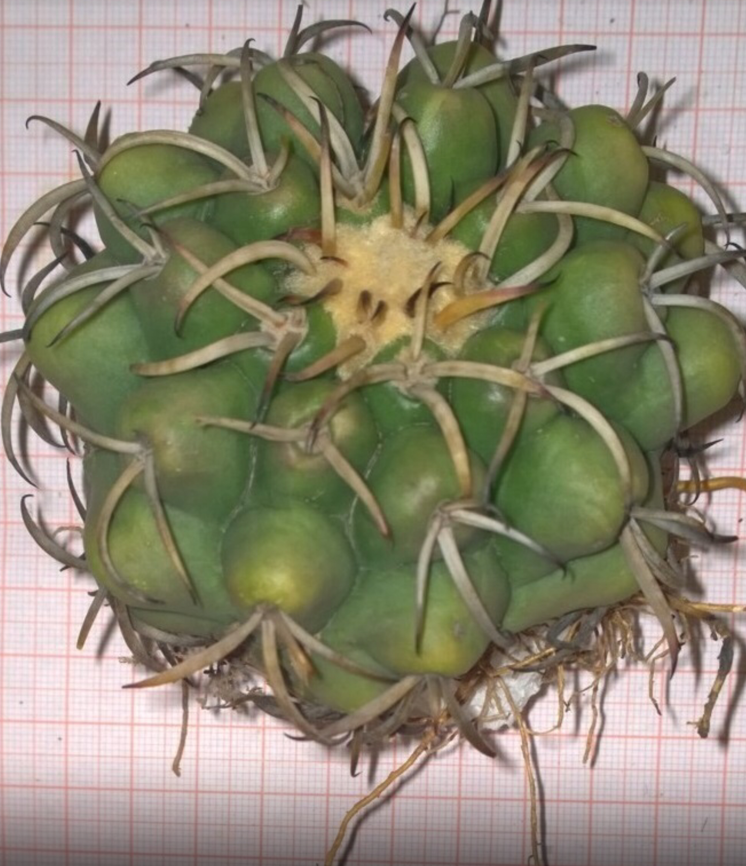 Discocactus heptacanthus subsp. goiasensis Isotype